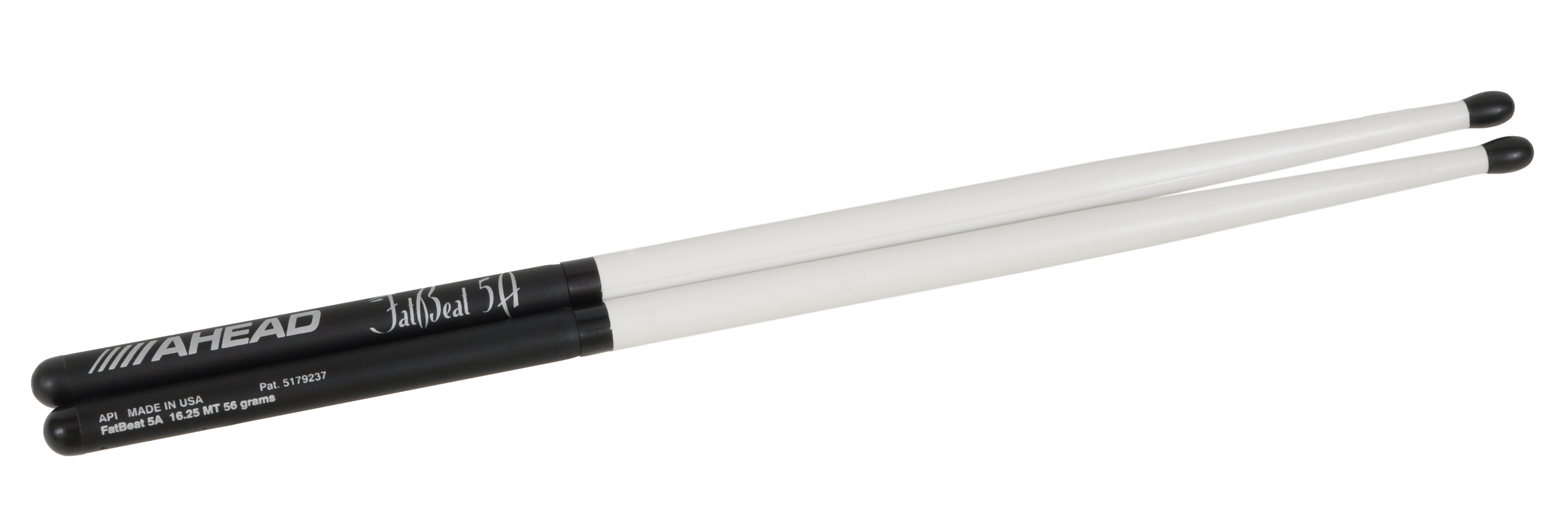 Ahead Fatbeat 5A aluminum drumsticks.